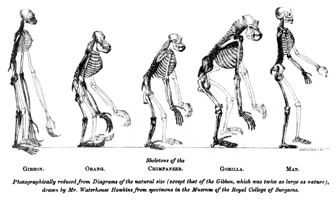 Illustration comparing the skeletons of various apes to that of man